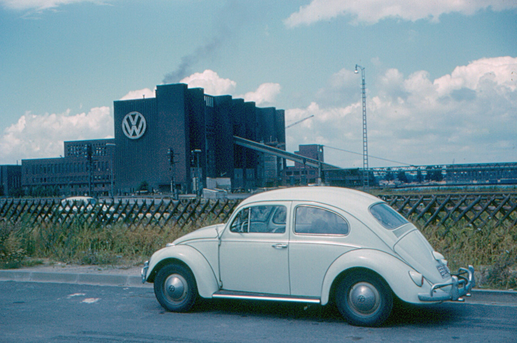 orginal descripton: One of the first things I did after arriving at Heidwinkel was drive to Wolfsburg, the new city where Volkswagens were made. Wolfsburg was only 20 km (12 mles) from Heidwinkel. This is my 1960 Volkswagen in front of the signature building of the factory. It may be the power plant. The Mittellandkanal, a major canal across northern Germany, is between me and the plant. This photo is geotagged